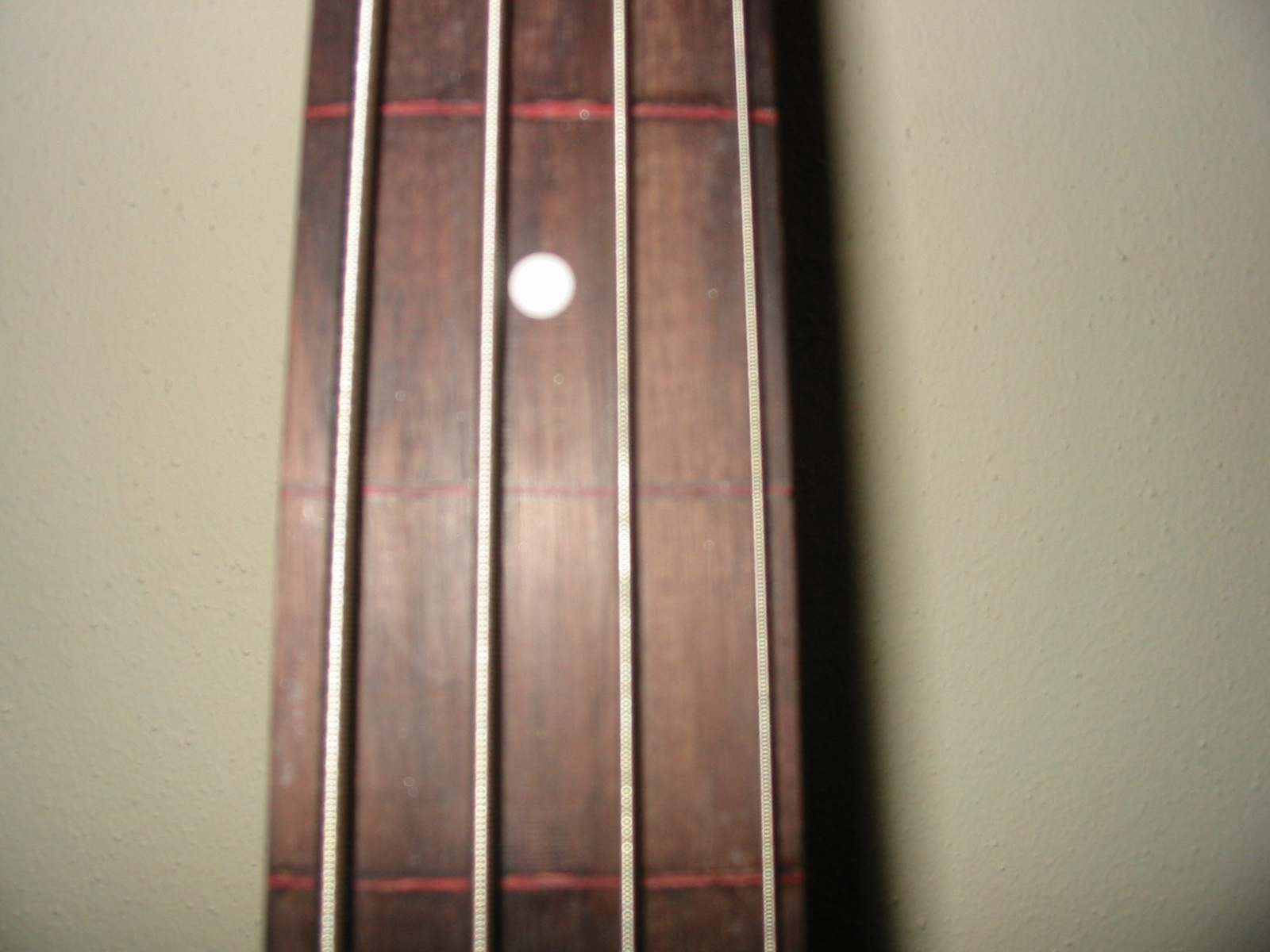 This bass was built by the Luthier Nathaniel Miller